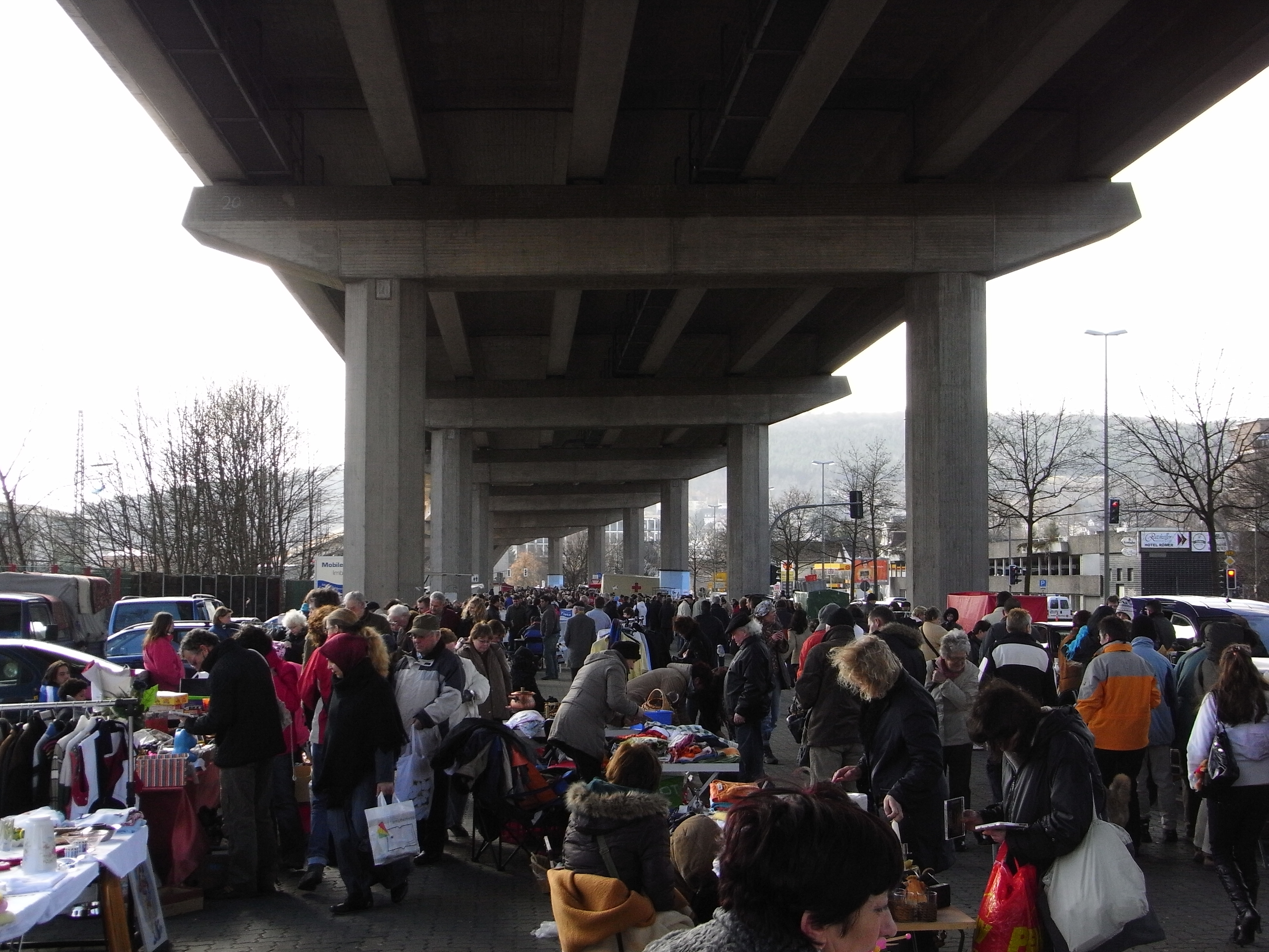 This photo was taken at a flea market in Geisweid, district of Siegen, Germany.